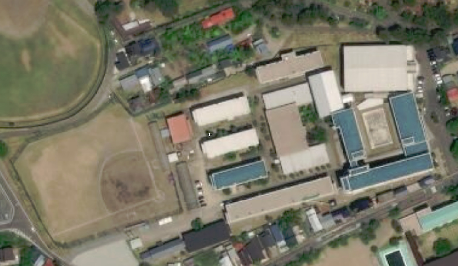 Noshiro Technical High School 2016